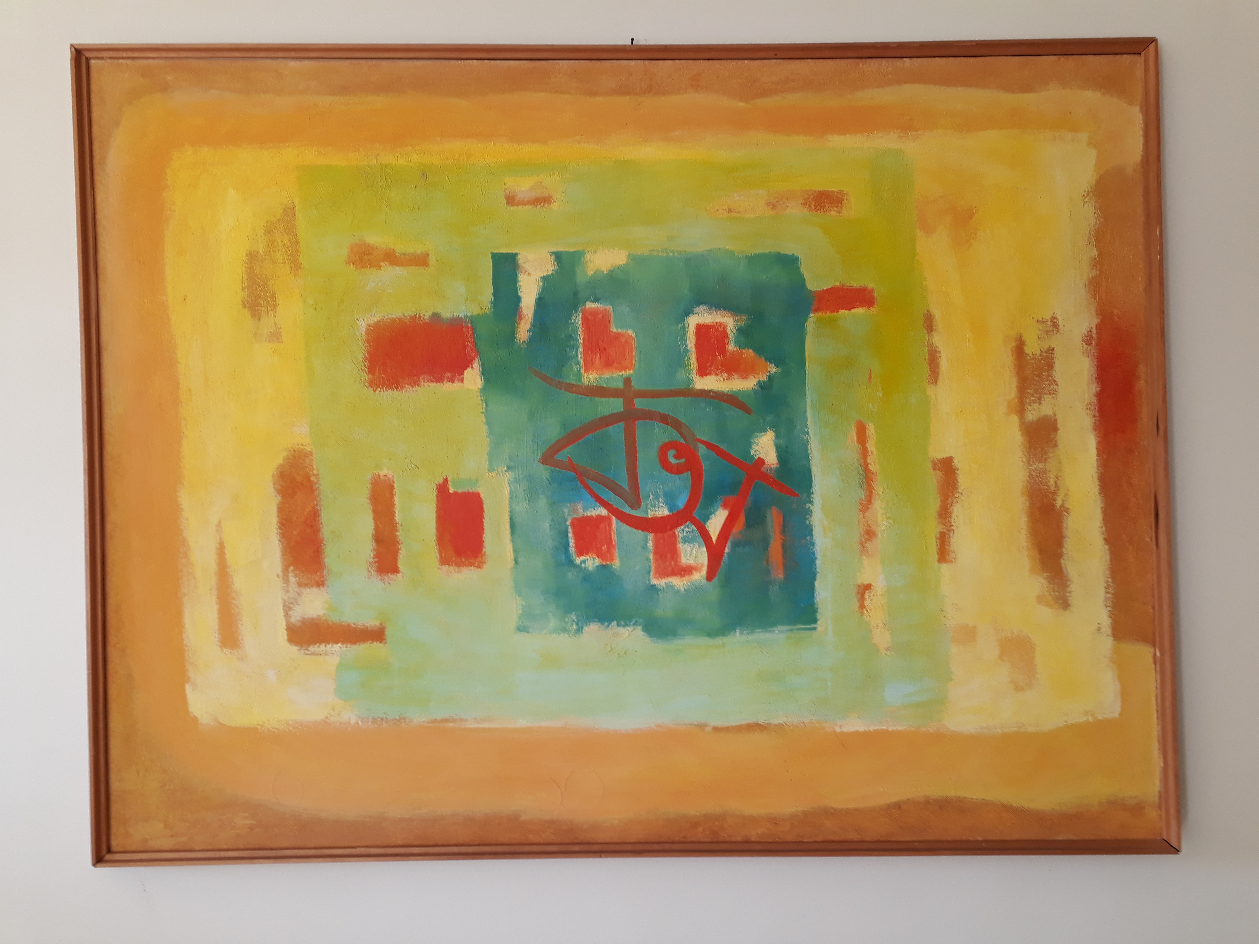 This oil painting (c. 1980) by Hamidur Rahman belongs to the Collection L. C. Vinholes, one of the seven collections of the museum of arts Leopoldo Gotuso of the Federal University of Pelotas, RS, Brazil.